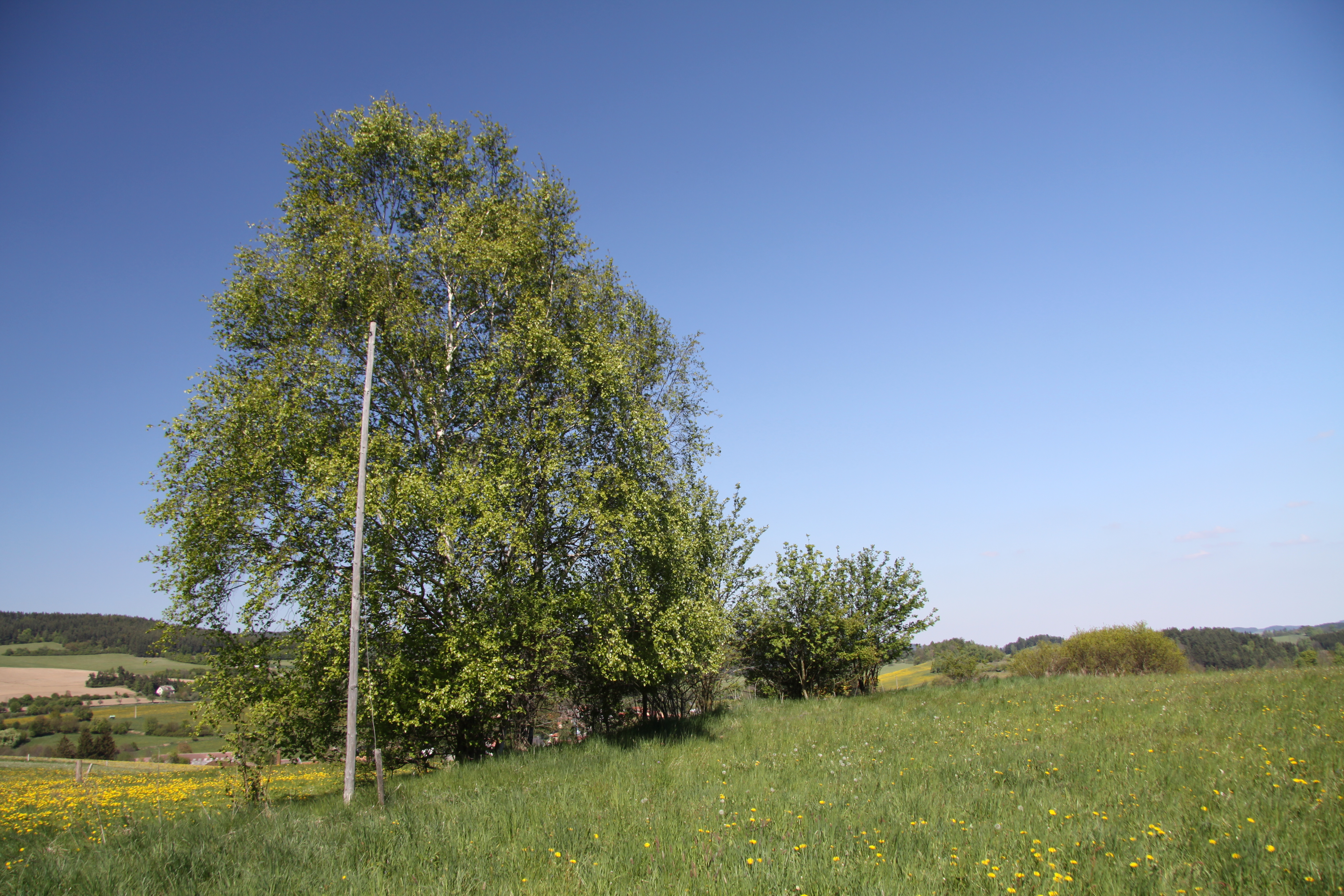 Natural monument U Narovců near Onšovice village in Prachatice District, Czech Republic